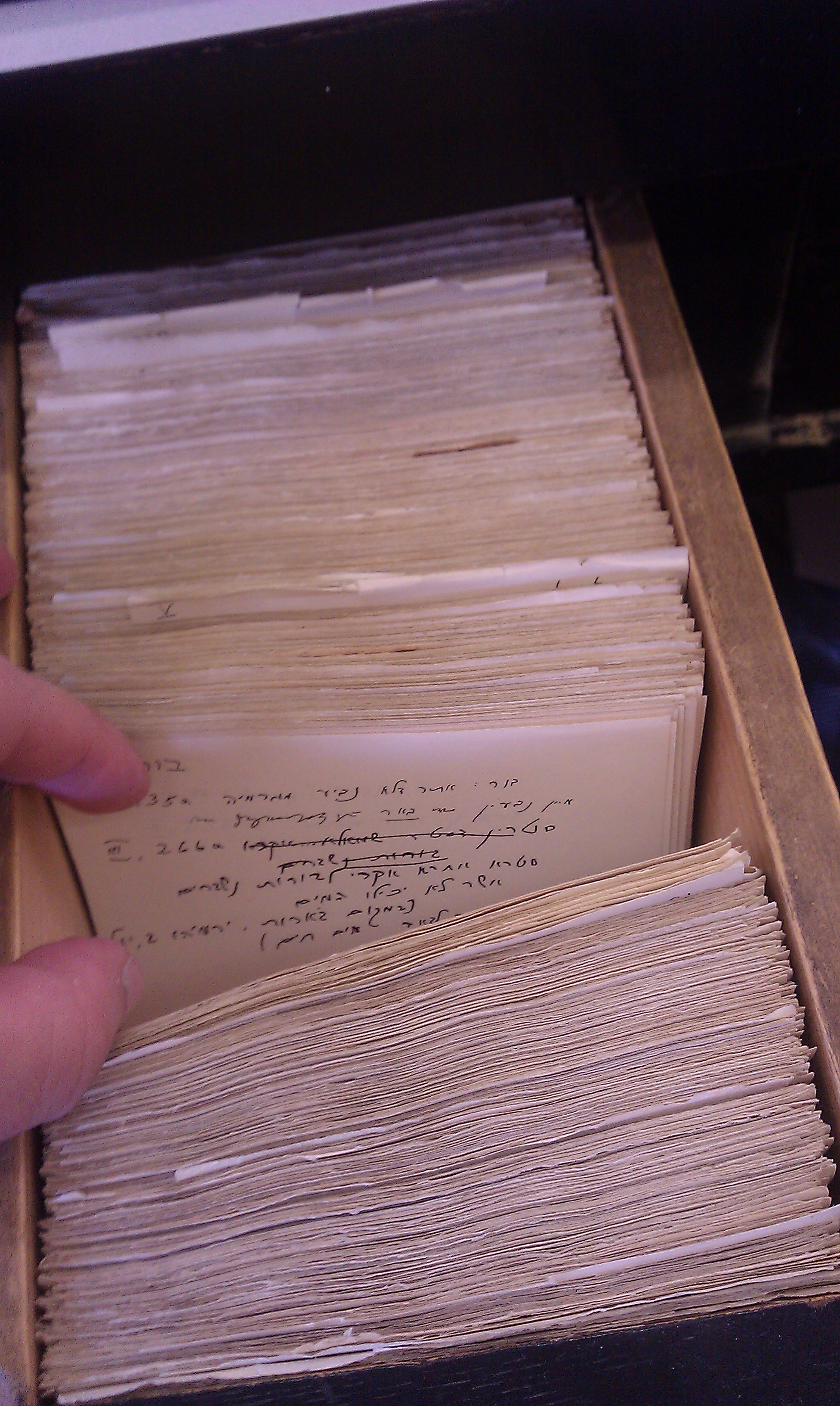 The card catalog where Gershom Scholem used to write his notes. Unknown